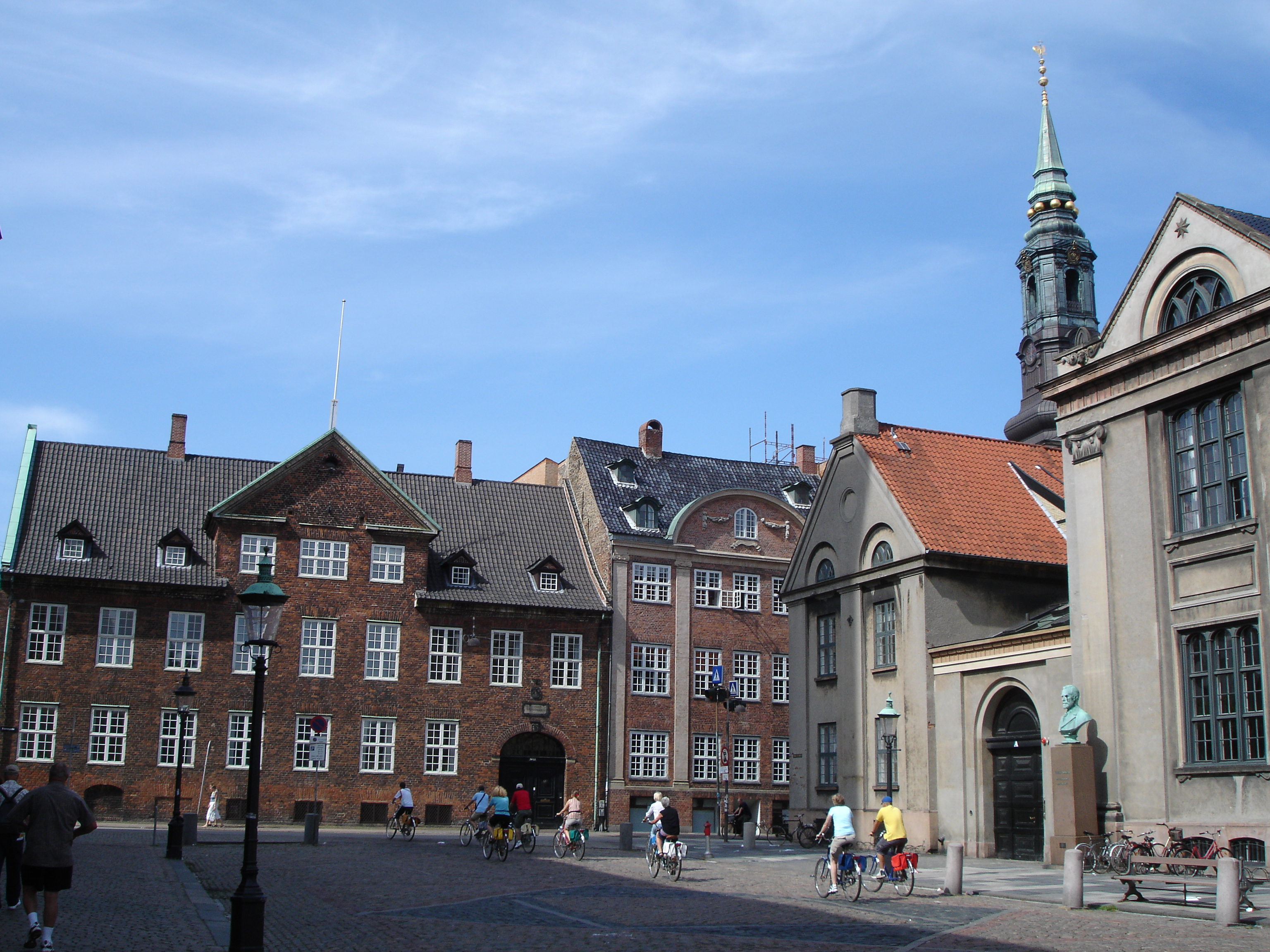 Bispegården (Bishop's House) to the left and University of Copenhagen to the right, seen from Vor Frue Plads in Copenhagen, Denmark